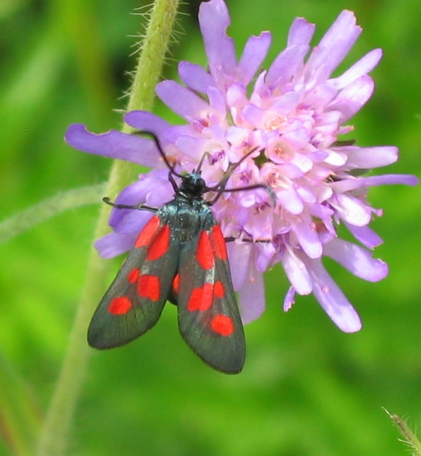 Zygaena viciae Many thanks to Daniel Bartsch from for determination!